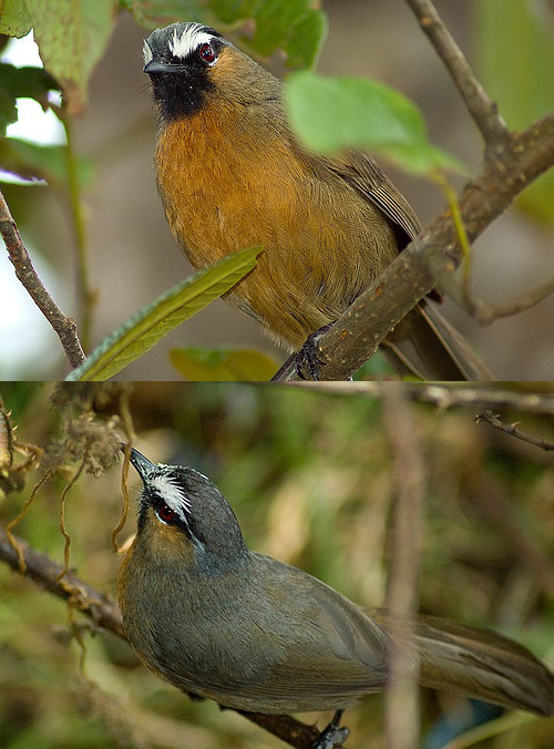 Rufous-Breasted Laughingthrush a.k.a. Nilgiri Laughingthrush from the hills of Ooty, The Nilgiris, Tamilnadu, India. Circa 2006.